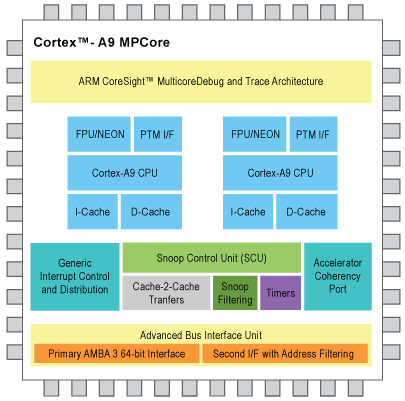 ARM Cortex A9